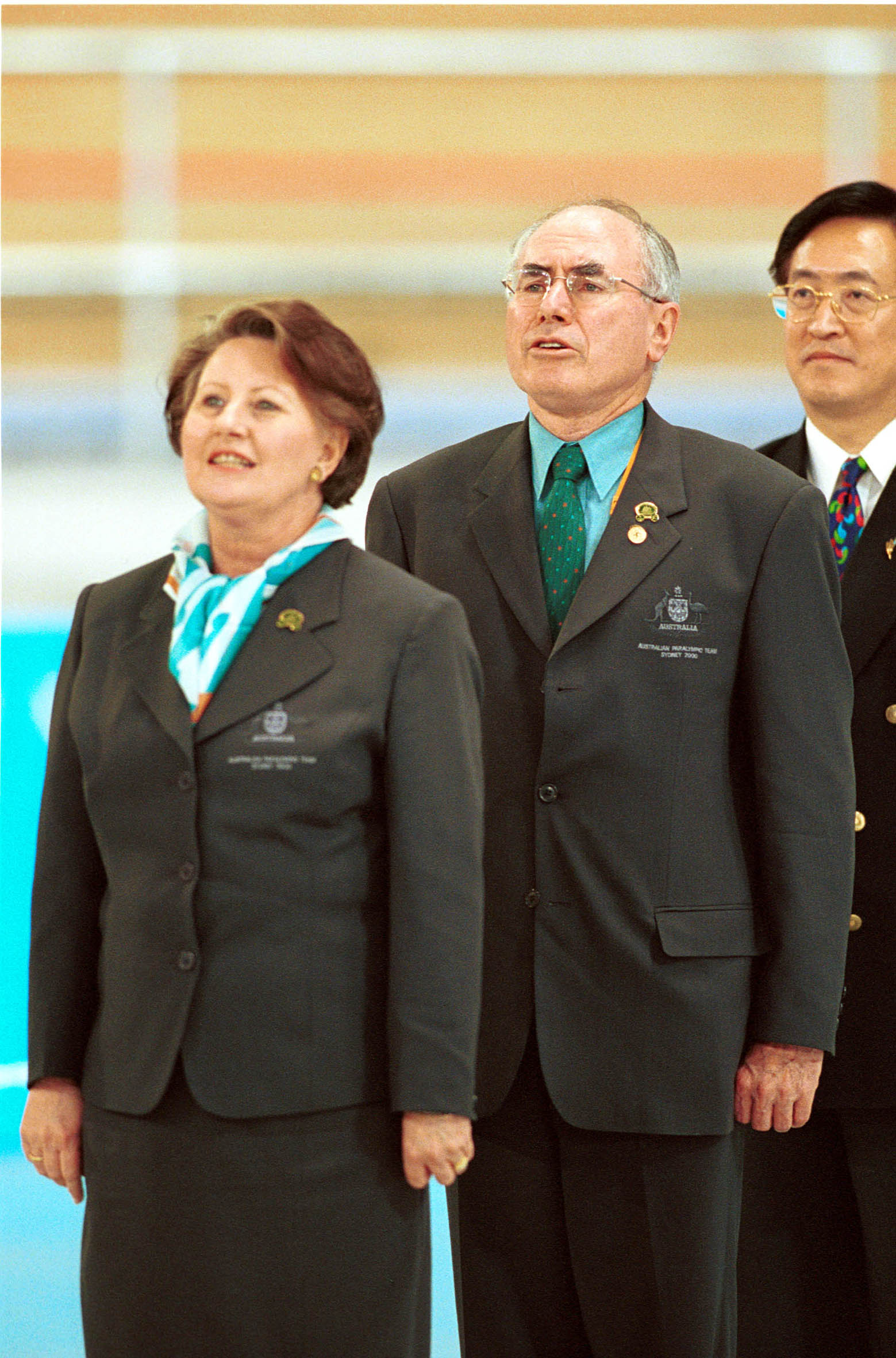 Australian Prime Minister John Howard and his wife Janette stand for the Australian anthem at track cycling competition during the 2000 Summer Paralympic Games, Day 01